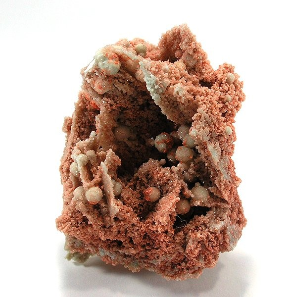 Hilgardite, Boracite Locality: Boulby Mine, Loftus, North Yorkshire, England, UK (Locality at ) Size: 5.5 x 4.5 x 3.4 cm. Microcrystalline red-orange hilgardite encasing boracite, from this classic locale that was revisited by mineral collectors in the late 90s. Ex. Martin Zinn Collection.